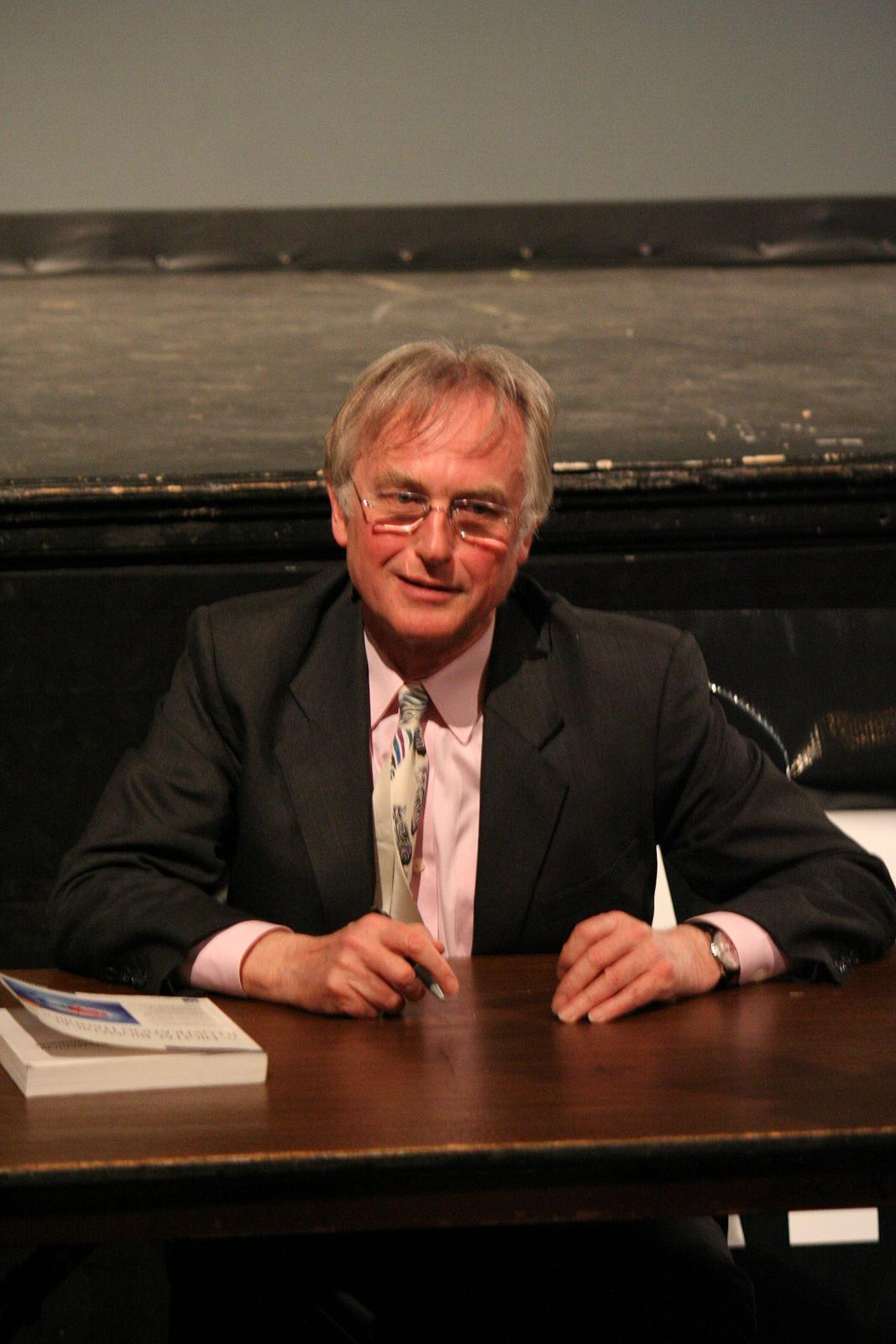 Dawkins at the University of Texas at Austin.